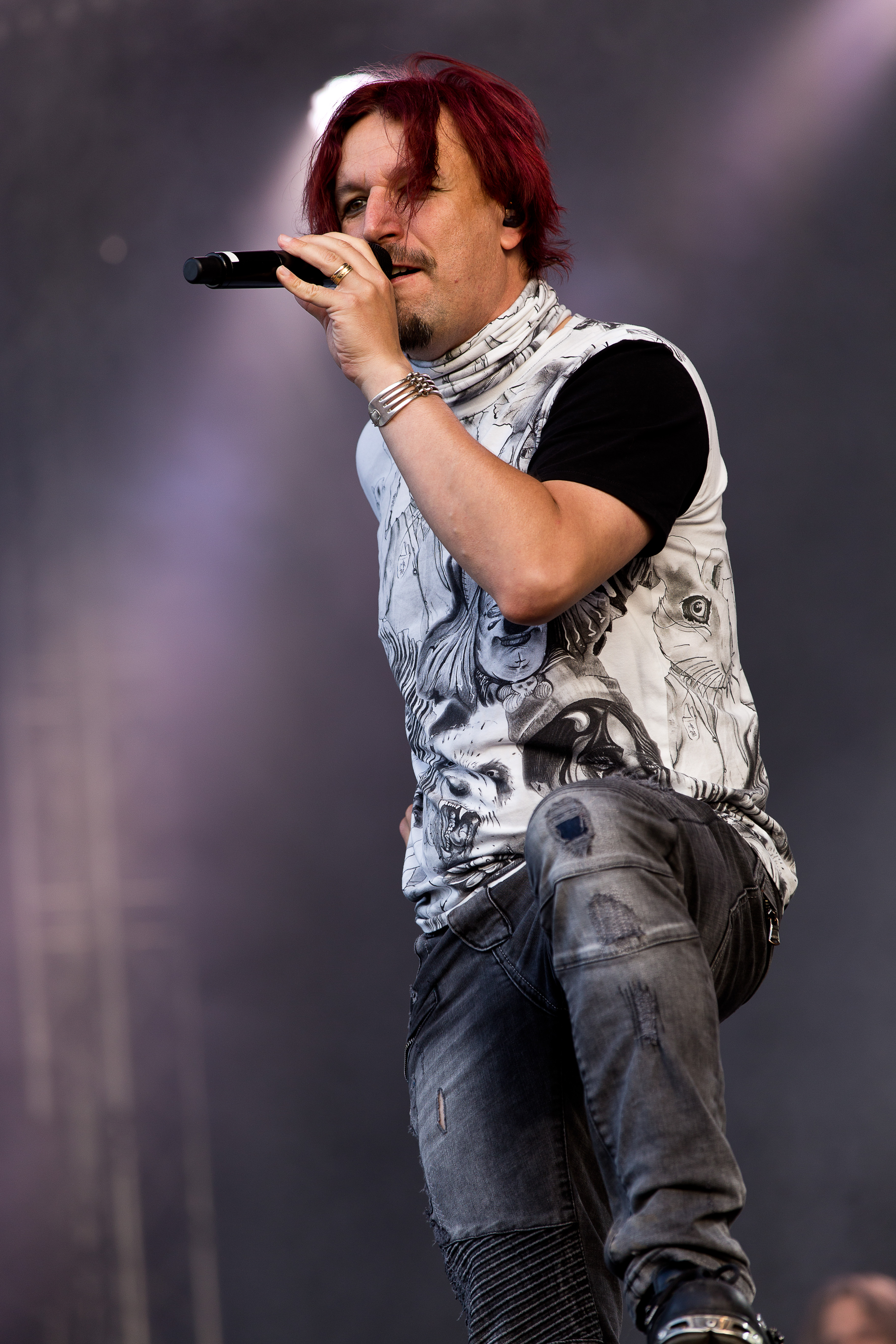 The Finnish power metal band Sonata Arctica at the Rockharz Open Air 2016 in Ballenstedt/Germany.